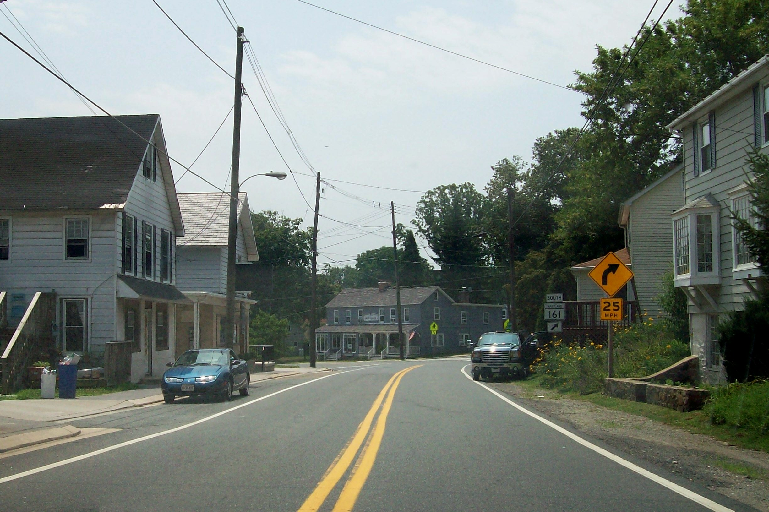 This is a view of Main Street in the heart of historic Darlington, Maryland looking southwest.